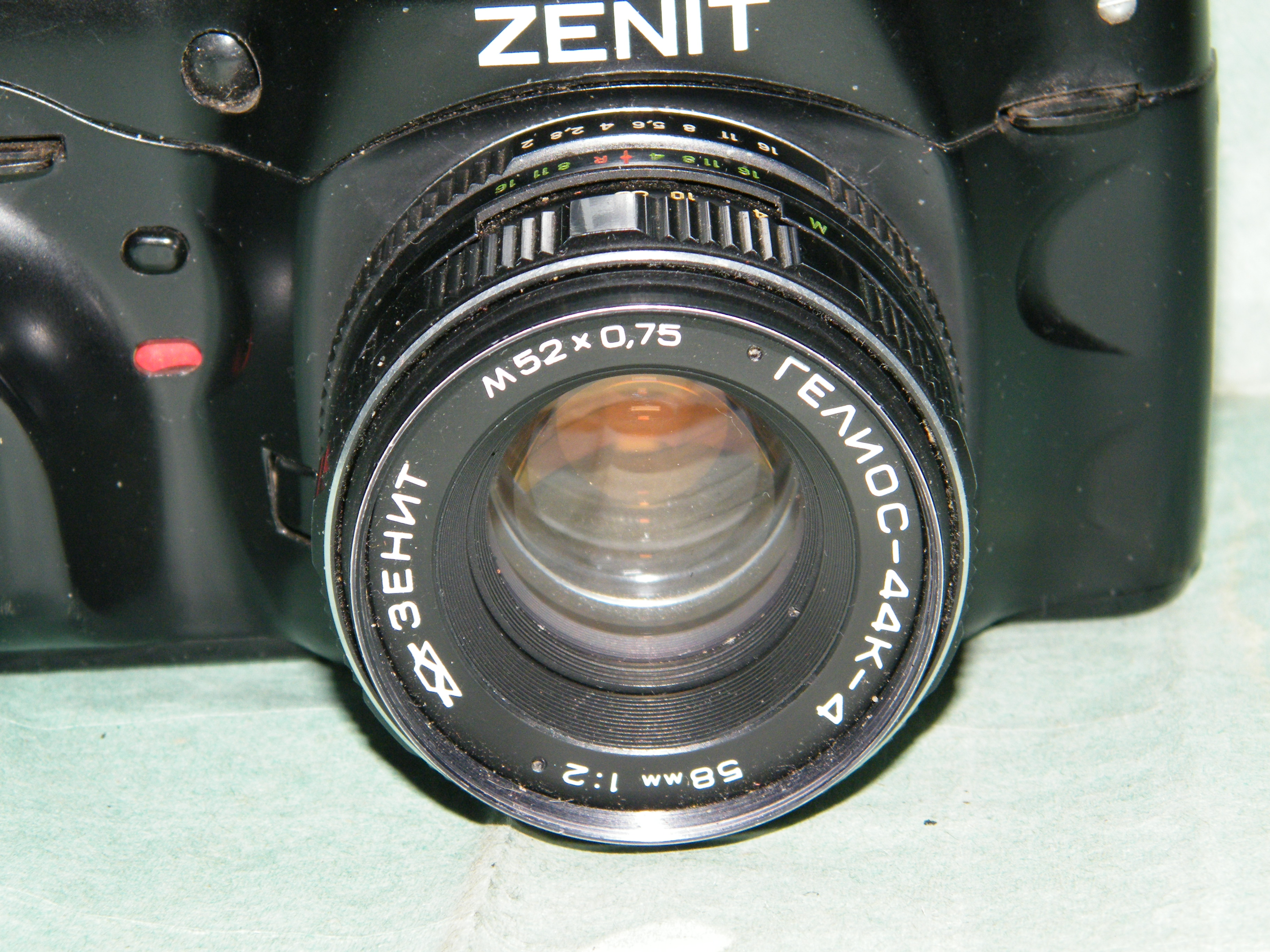 Zenit 212k